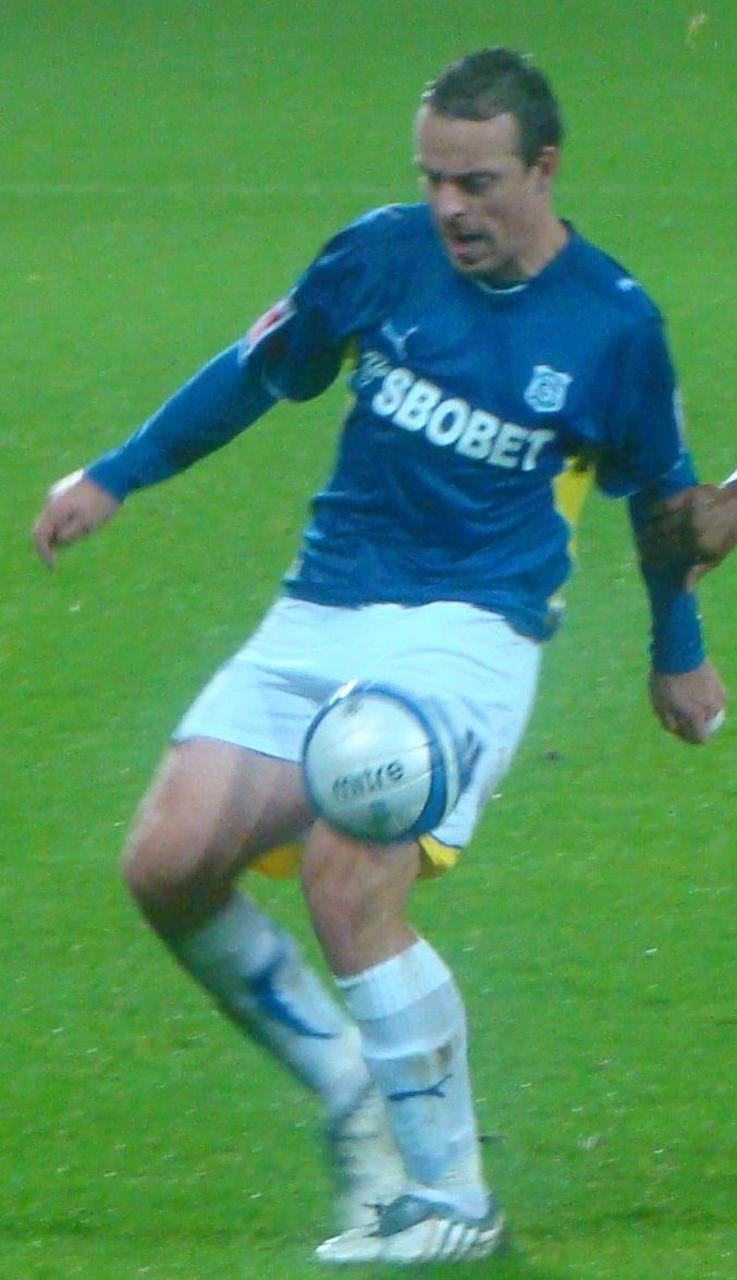 01/11/09 Cardiff City V Nottingham Forest, Cardiff City Stadium, Cardiff, Wales